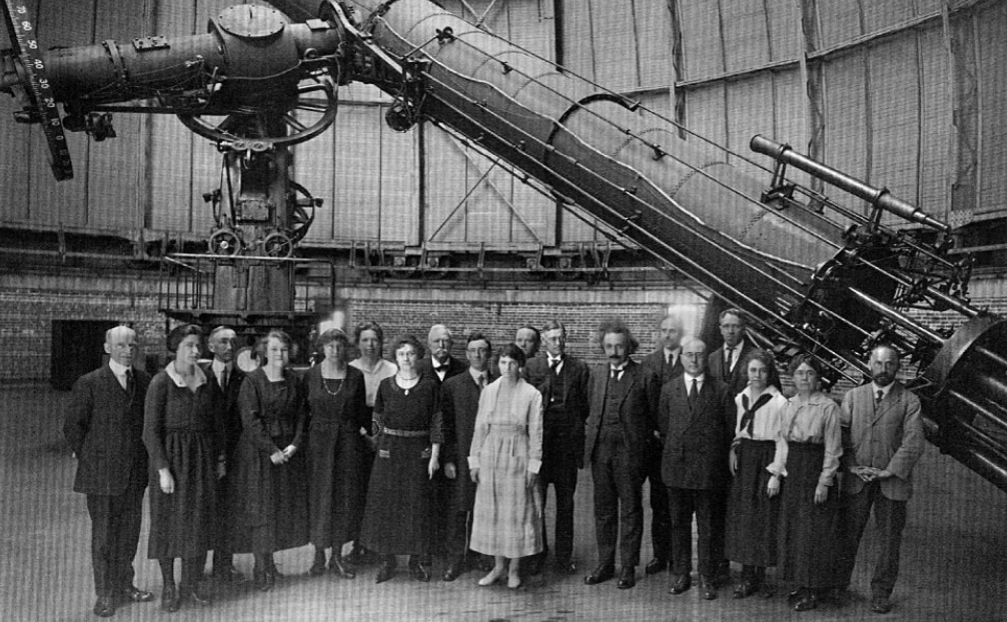 Albert Einstein and the staff of the Observatory in front of the 40-inch Refractor, Yerkes Observatory — Williams Bay, Wisconsin. E. E. Barnard is shown in the middle of the back row.